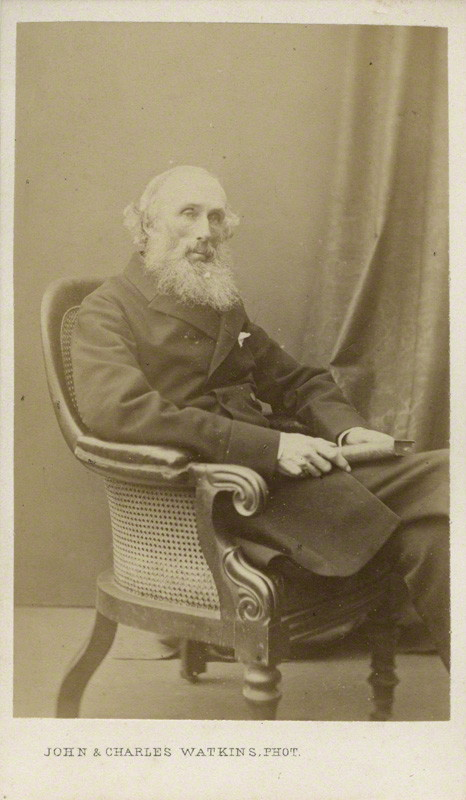 Portrait of Lord Sydney Godolphin Osborne (1808–1889), English cleric.